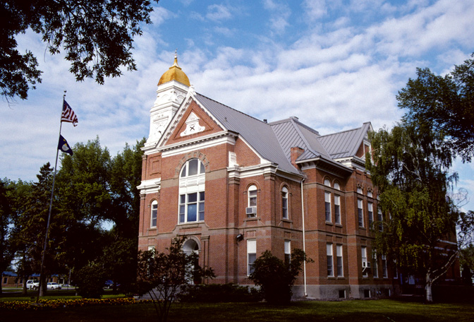 The Chouteau County Courthouse, located at 1308 Franklin Street in Fort Benton, Montana, United States. Built in 1883, the courthouse is listed on the National Register of Historic Places.